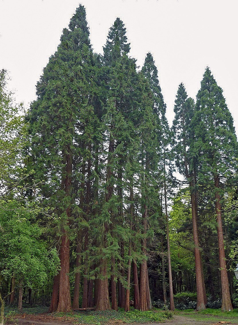 Sequoiadendron giganteum group from within the 'Sequoiafarm Kaldenkirchen. The trees were just 60 years old in 2010.